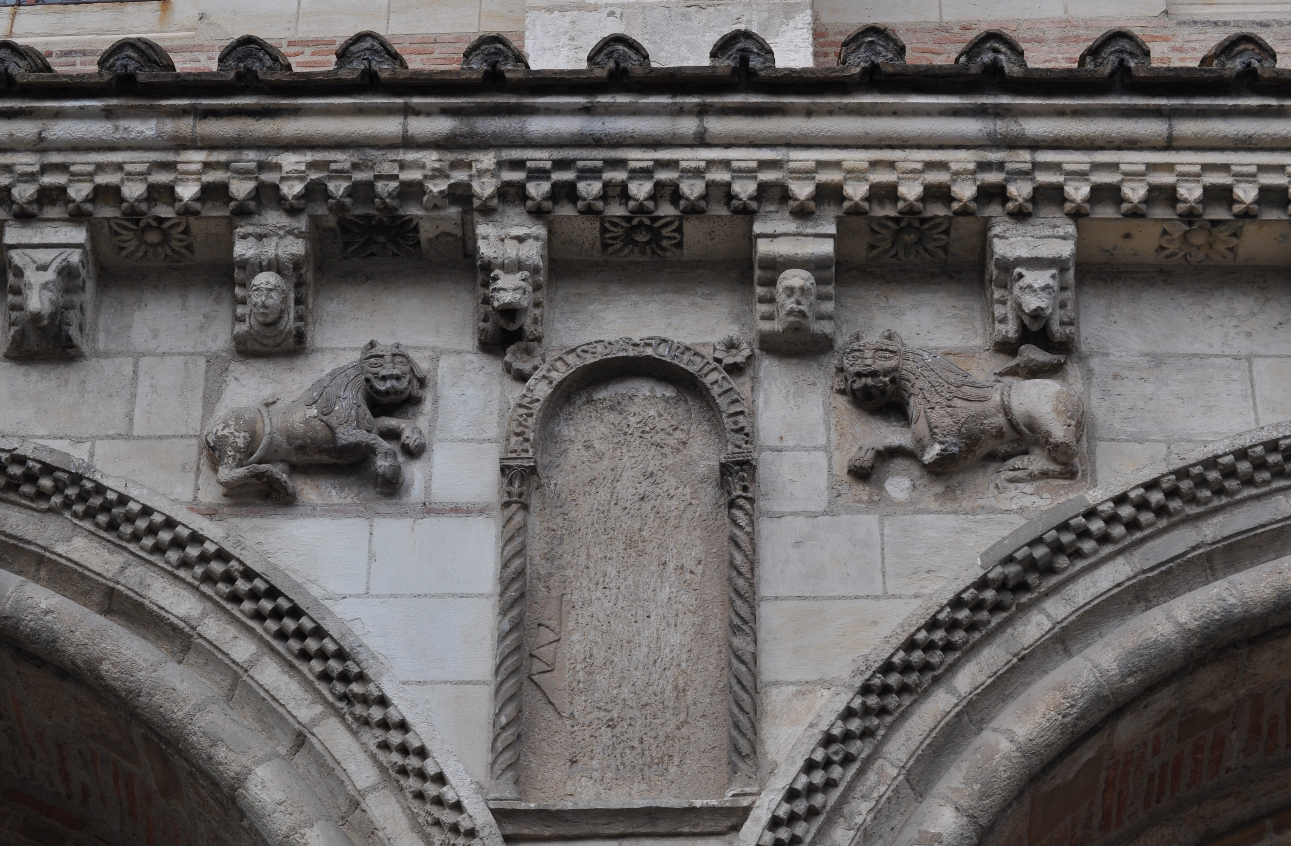 The Porte des Comtes in St. Sernin at Toulouse - central relief where "SANCTUS SATURNINUS" can be read